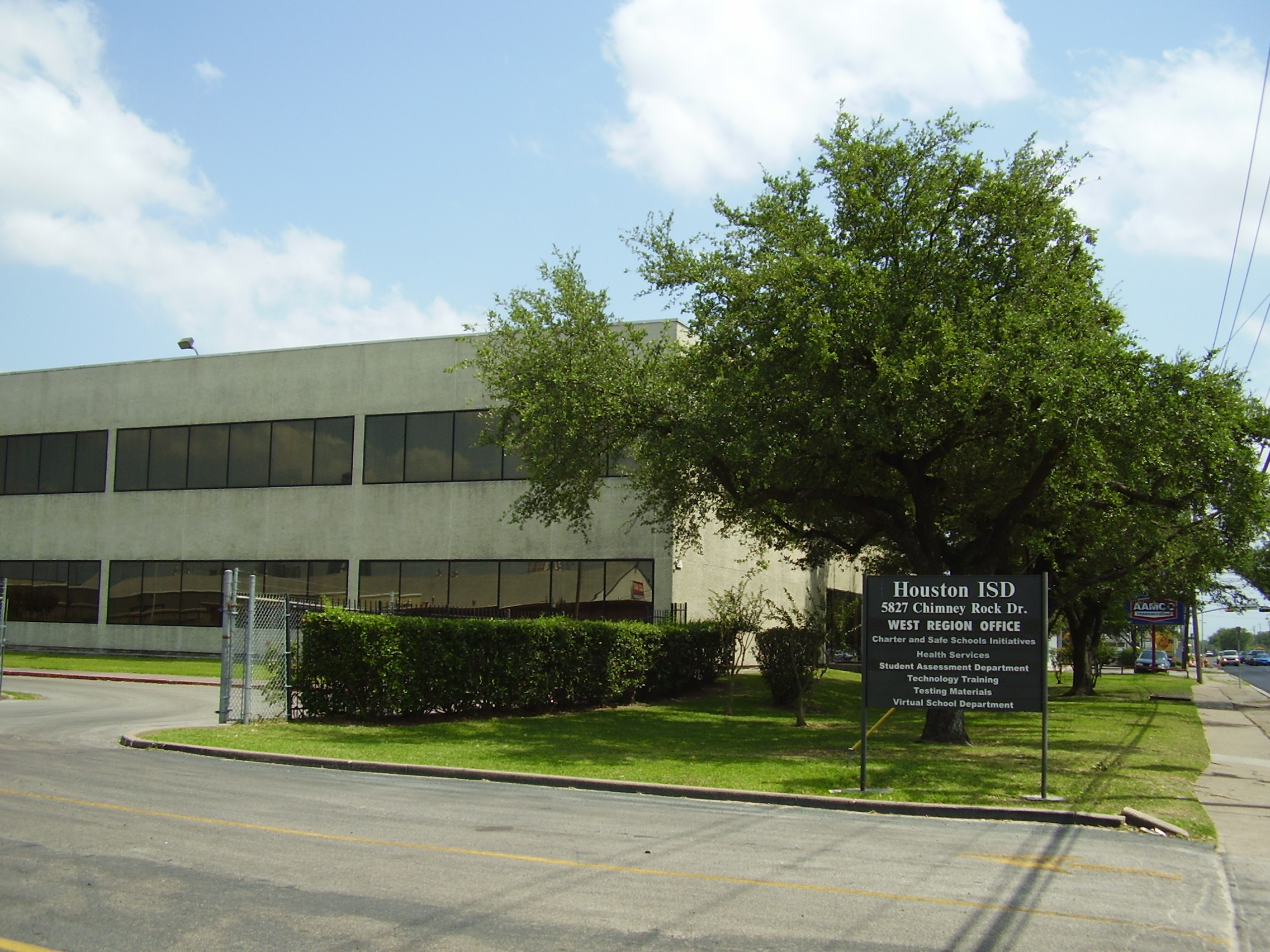 Houston Independent School District West Regional Office